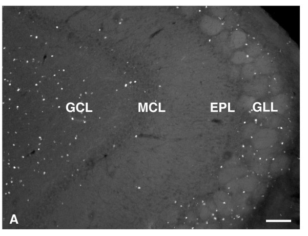 BrdU-positive cells and also cells staining for the biochemical subtype markers CB, CR, GABA, TH, and NC are differentially distributed throughout the olfactory bulb. Low magnification images (10×) of sagittal sections through the olfactory bulb show positive immunoreactivity for (A) BrdU, (B) CB, (C) CR, (D) GABA, (E) TH, and (F) NC predominately within the GLL and GCL. Scale bars, 100 μm. CB, calbindin; CR, calretinin; TH, tyrosine-hydroxylase; NC, N-copine; GLL, glomerular layer; GCL, granule cell layer. Bagley et al. BMC Neuroscience 2007 8:92